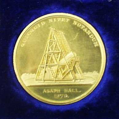 This is the actual Gold Medal of the Royal Astronomical Society that was awarded to Asaph Hall in 1879.